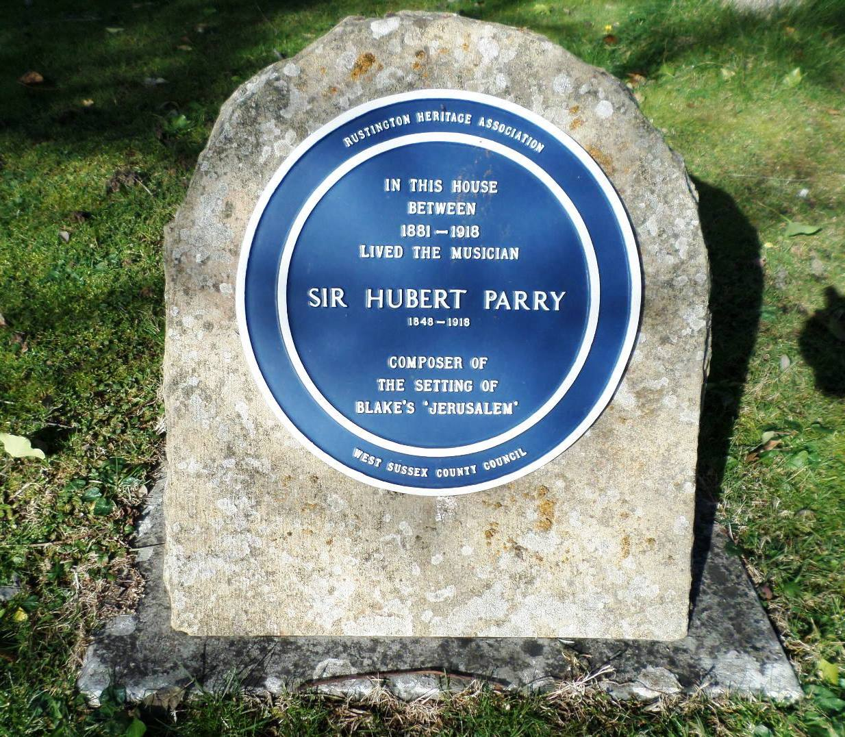 Sir Hurbert Parry lived at this location from 1881-1918